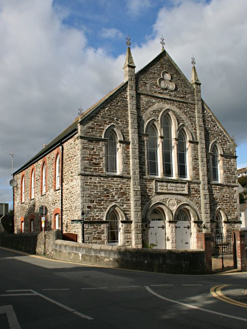 Converted Chapel This used to be Mevagissey Bible Christian Chapel but is now converted into private accommodation.